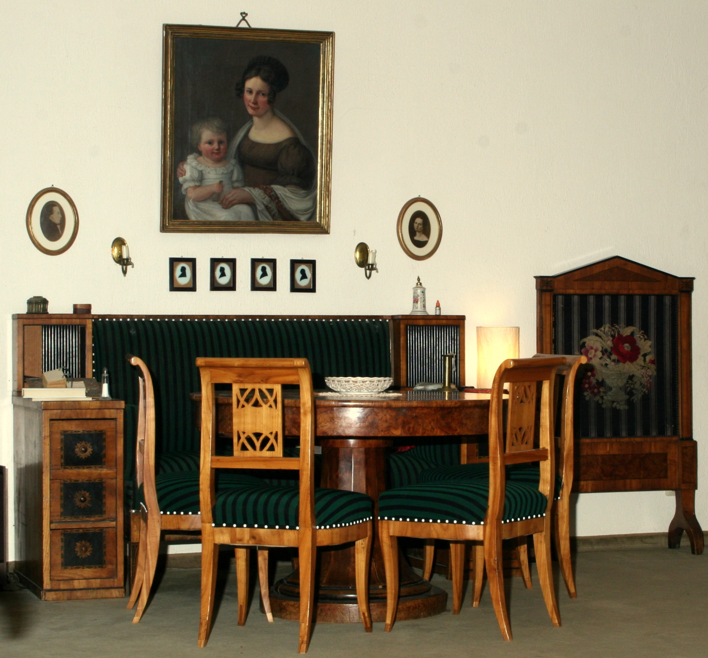 Detail of the salon of the Grand Duke of Saxony-Weimar and Eisenach Chancellor Gustav Wittich. Made in 1809 in the style of Empire and early Biedermeier on the occasion of his wedding.